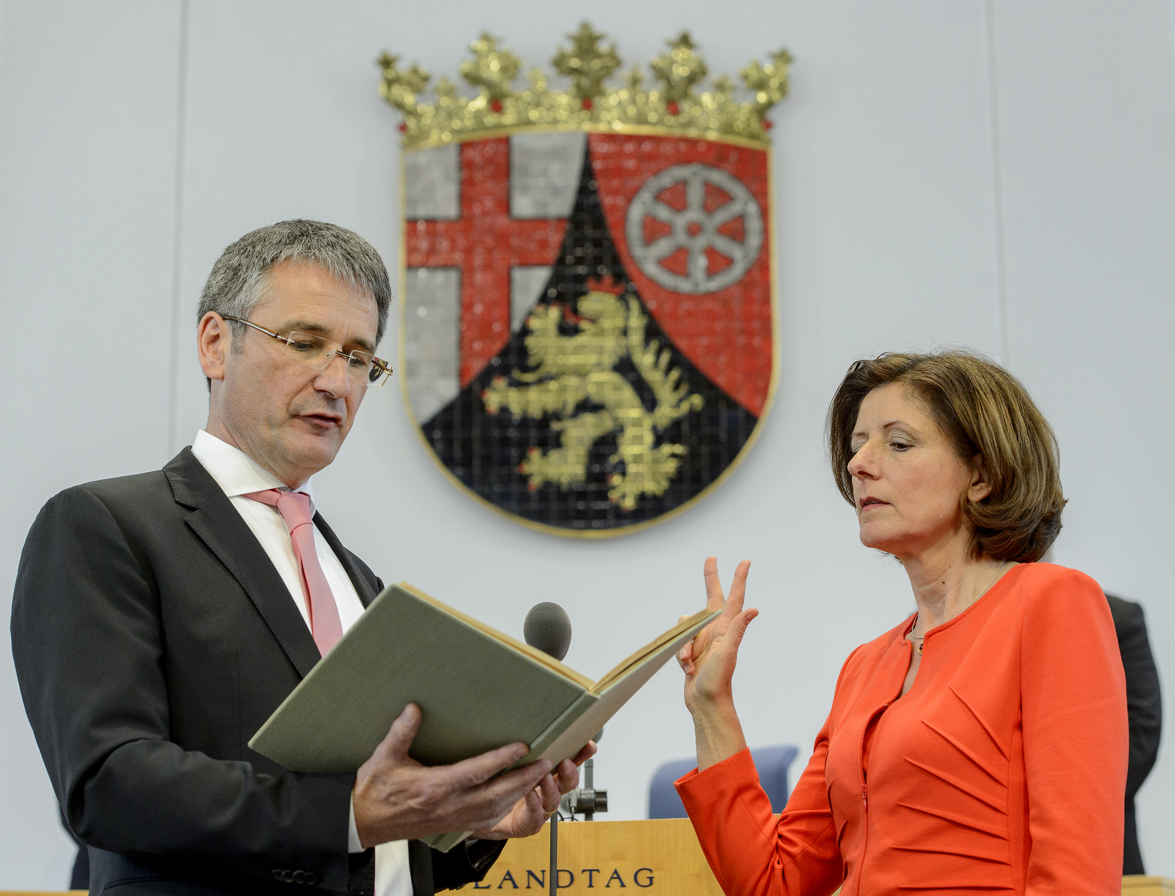 Malu Dreyer